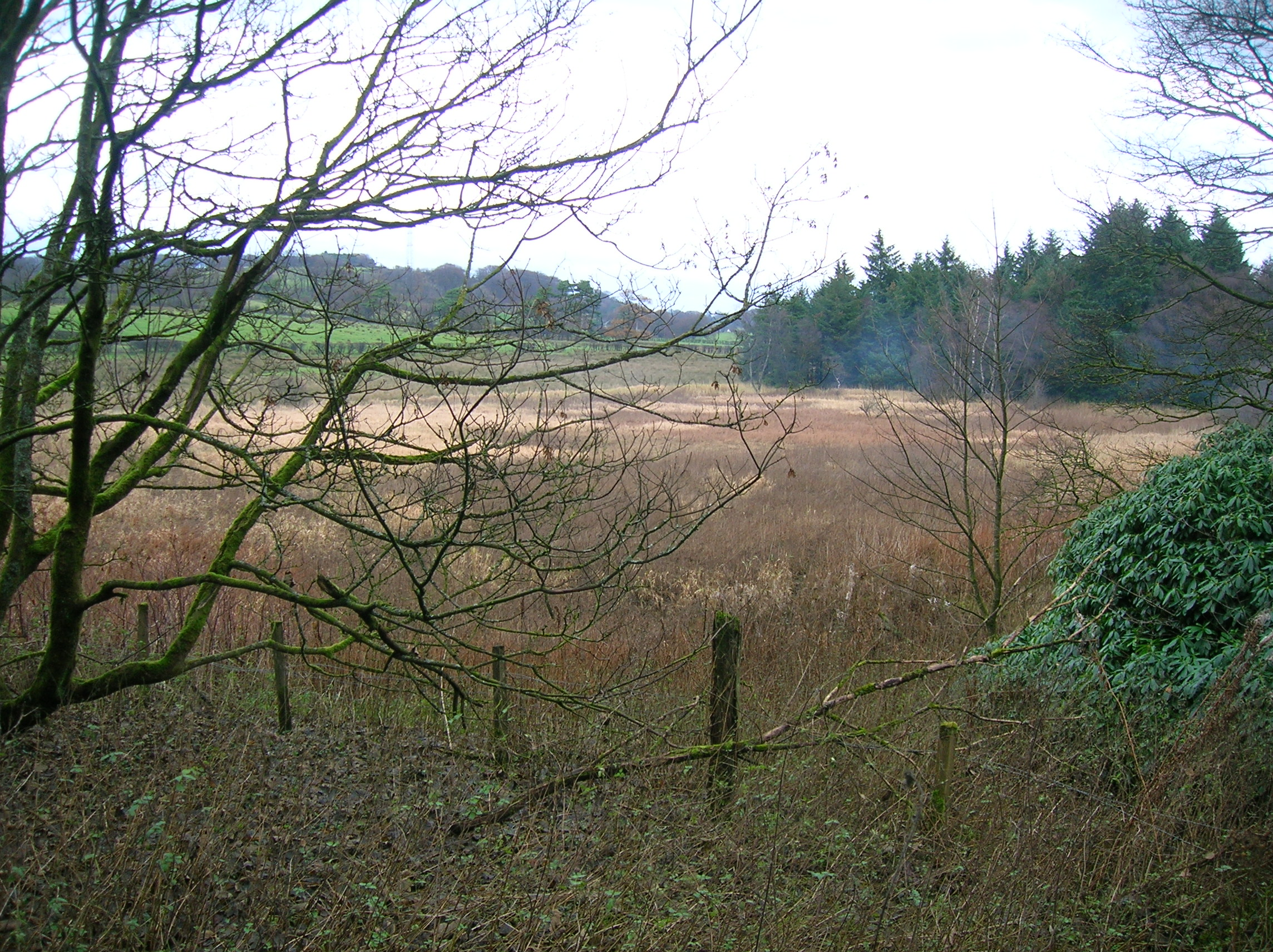 The old Cur;ling Pond near Hessilhead Castle ruins, Beith, North Ayrshire, Scotland.